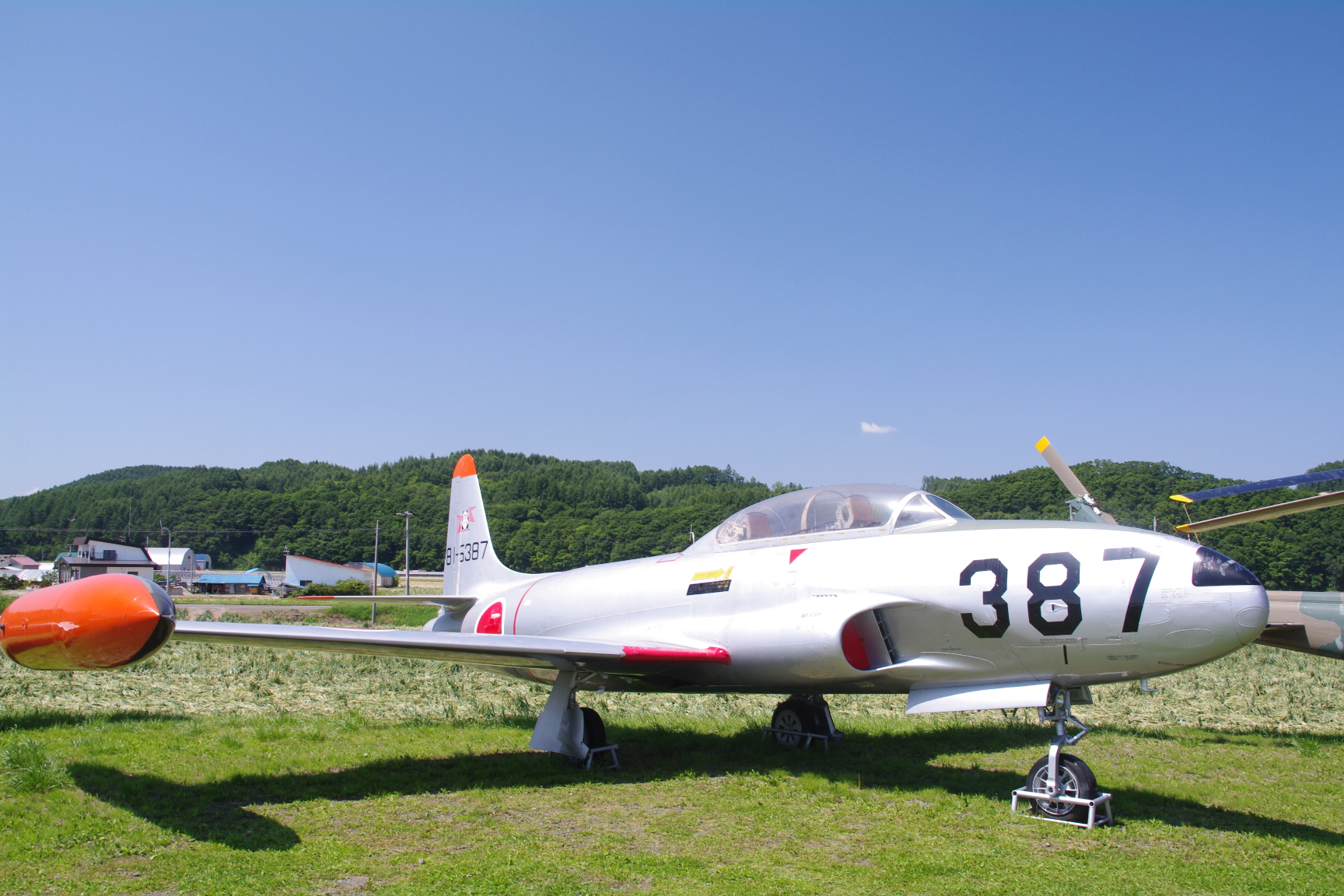 Retired JASDF T-33A preserved at Bihoro Aviation Park in Bihoro Town, Hokkaido